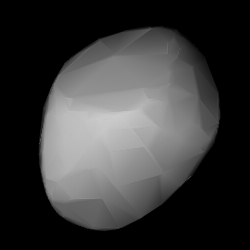 3D convex shape model of 1107 Lictoria, computed using light curve inversion techniques. J. Hanuš, J. Ďurech, M. Brož, B. D. Warner (June 2011). "A study of asteroid pole-latitude distribution based on an extended set of shape models derived by the lightcurve inversion method". Astronomy and Astrophysics 530: A134. ISSN 0004-6361. arXiv